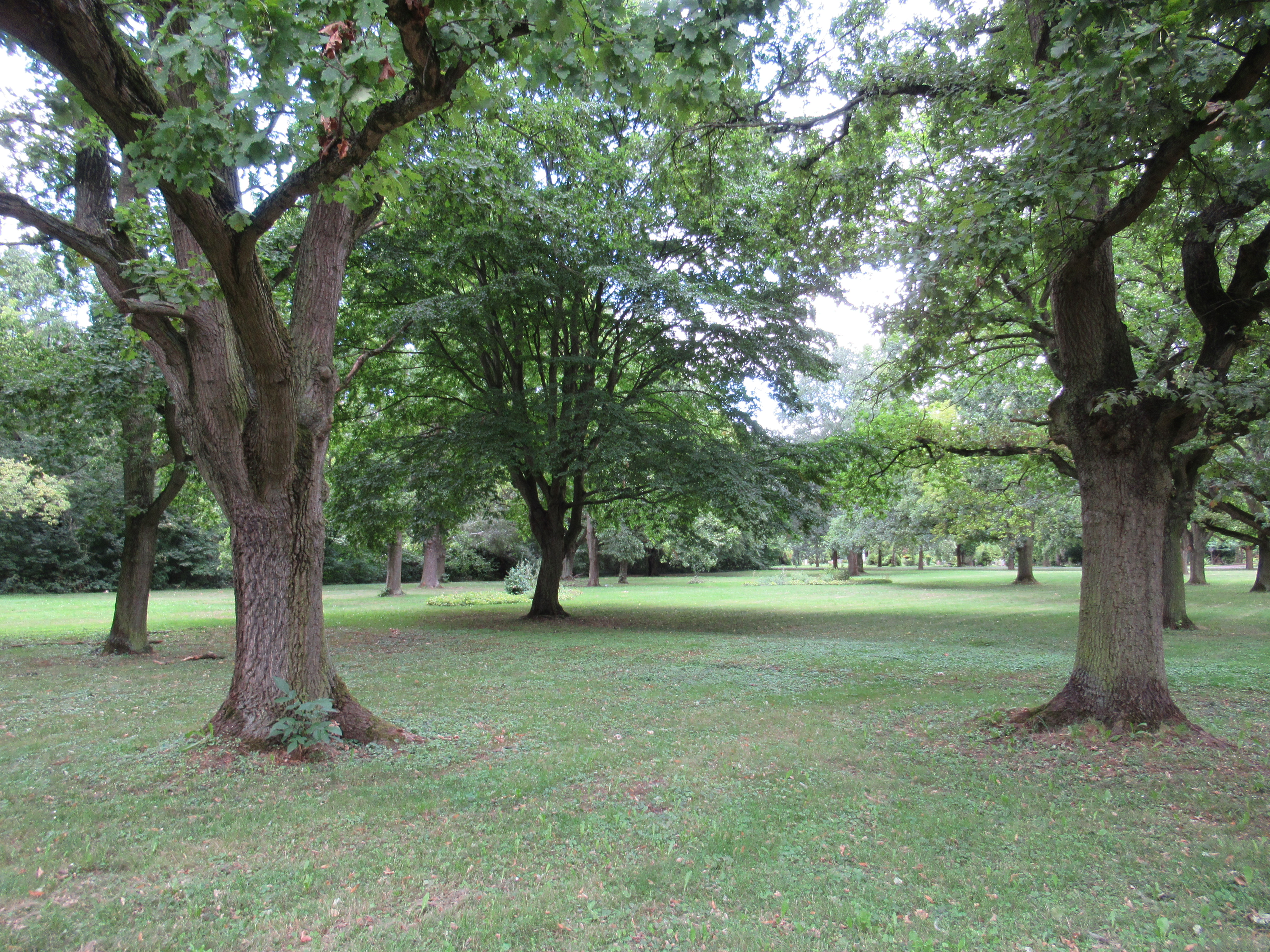 Magdeburg Mass Grave Bombing Victims WW II